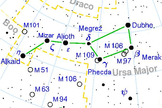 Star map of constellation Ursa Major. User:SAE1962 Added all the names and letters to the stars that were not complete.